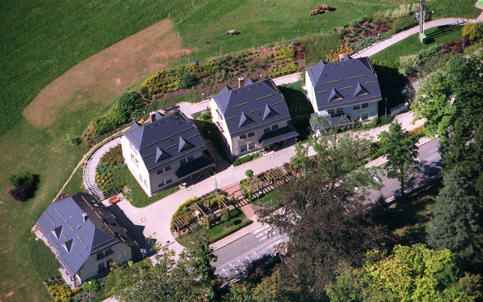 Areál Domky ve stráni Žampach, rok 2005